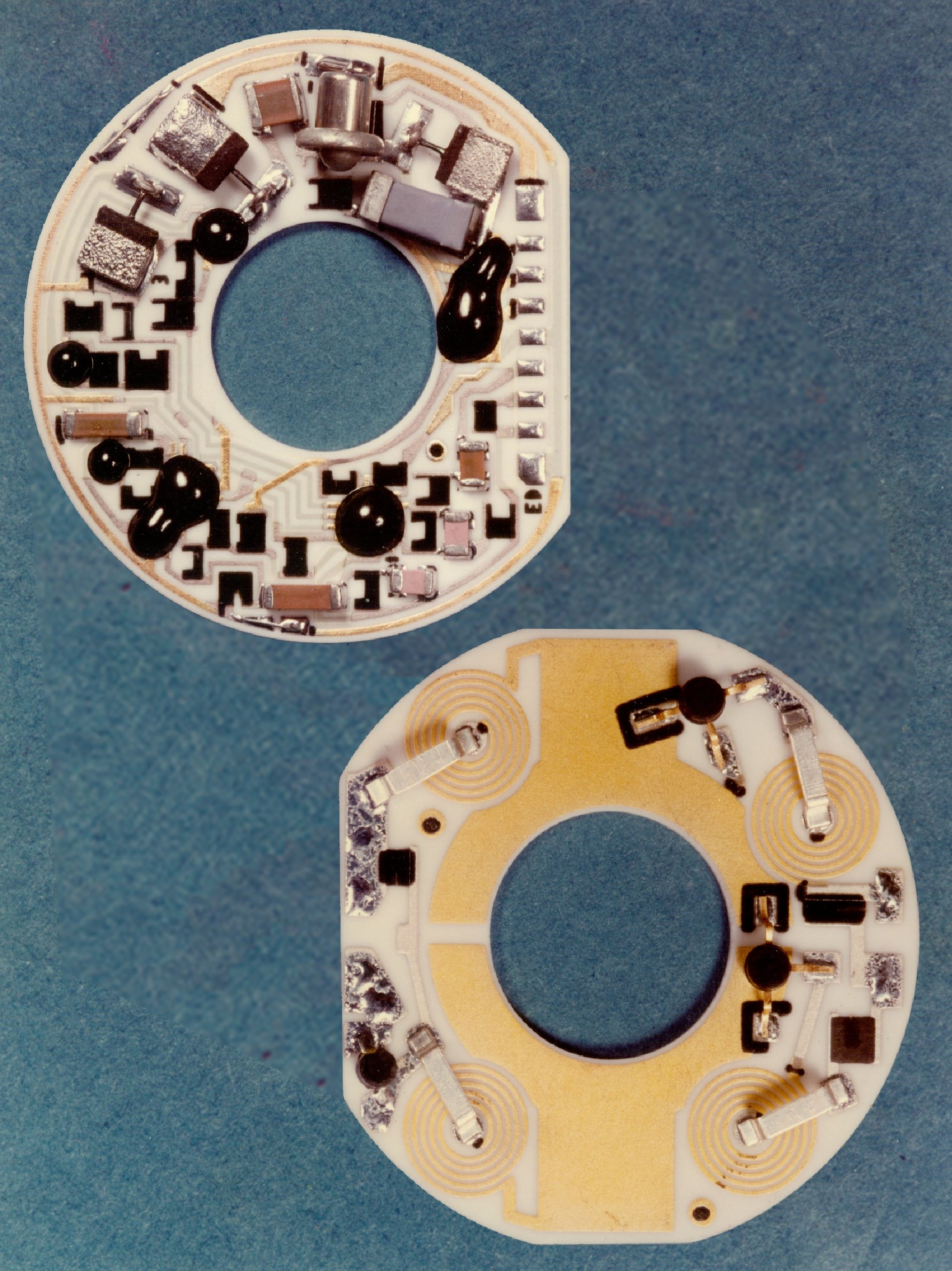 Early versions of the M734 Amplifier manufactured by Motorola and M734 Oscillator manufactured by Eastman Kodak